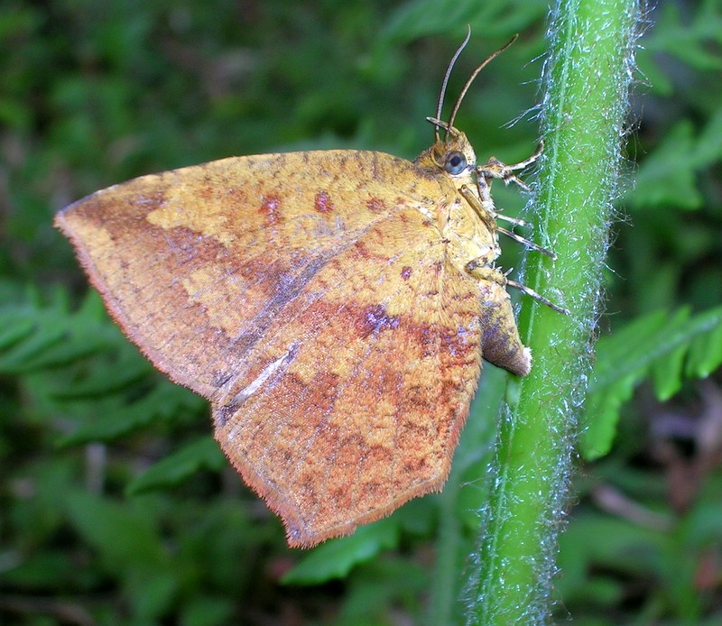 Tetragonus catamitus moth (family Callidulidae) at Talakaveri, Coorg, India (Old name Cleosiris catamita)